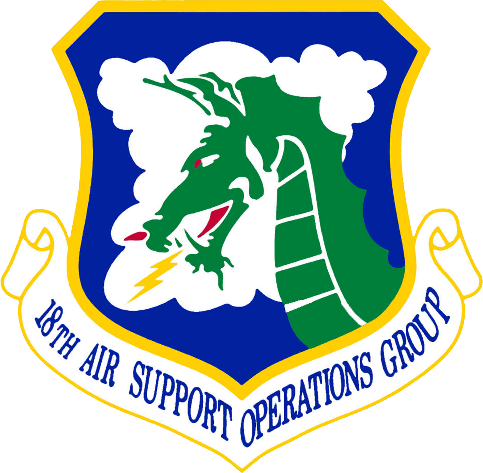 United States Air Force 18th Air Support Operations Group emblem. Made with Photoshop.